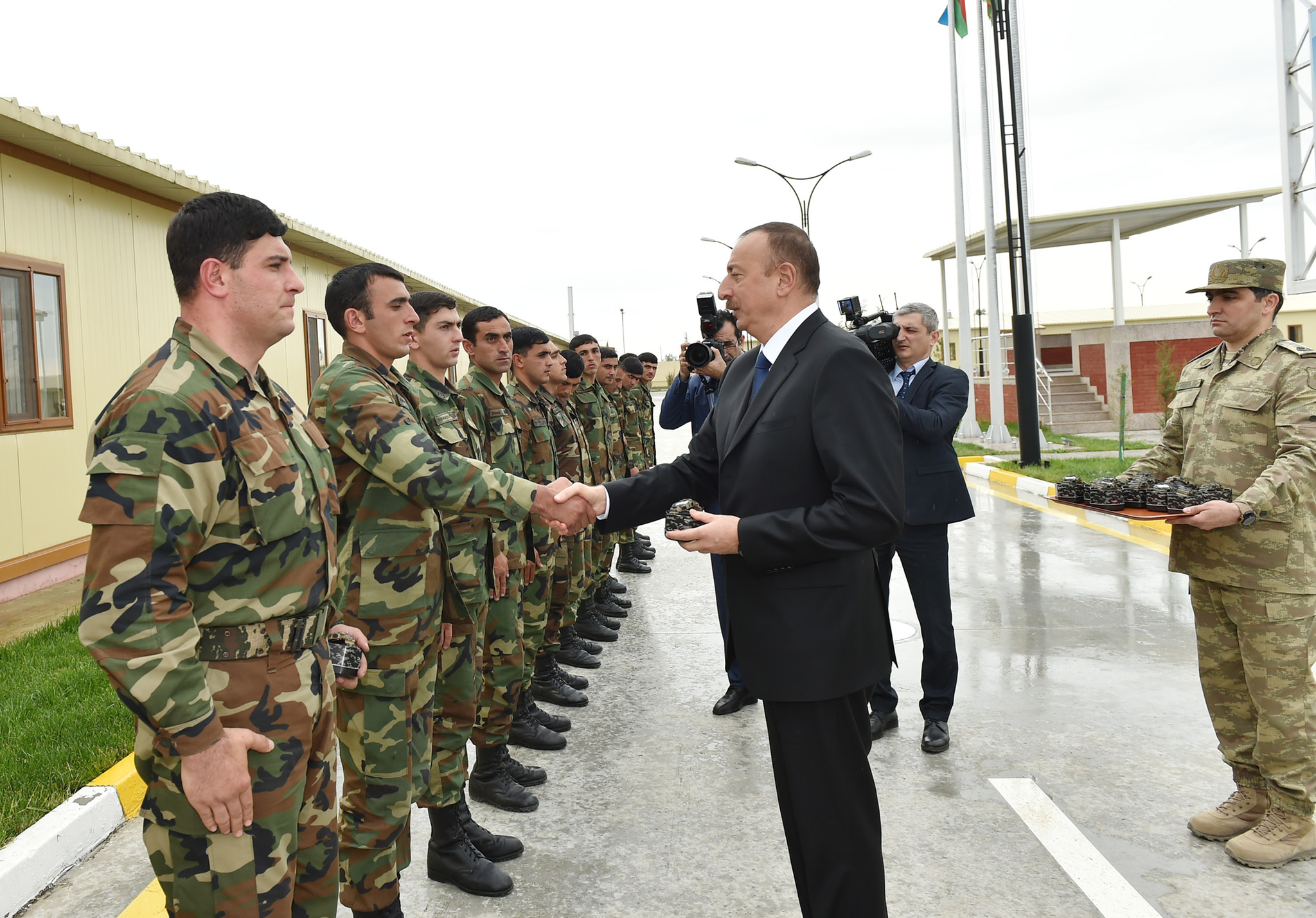 Ilham Aliyev visited military unit in Tartar district